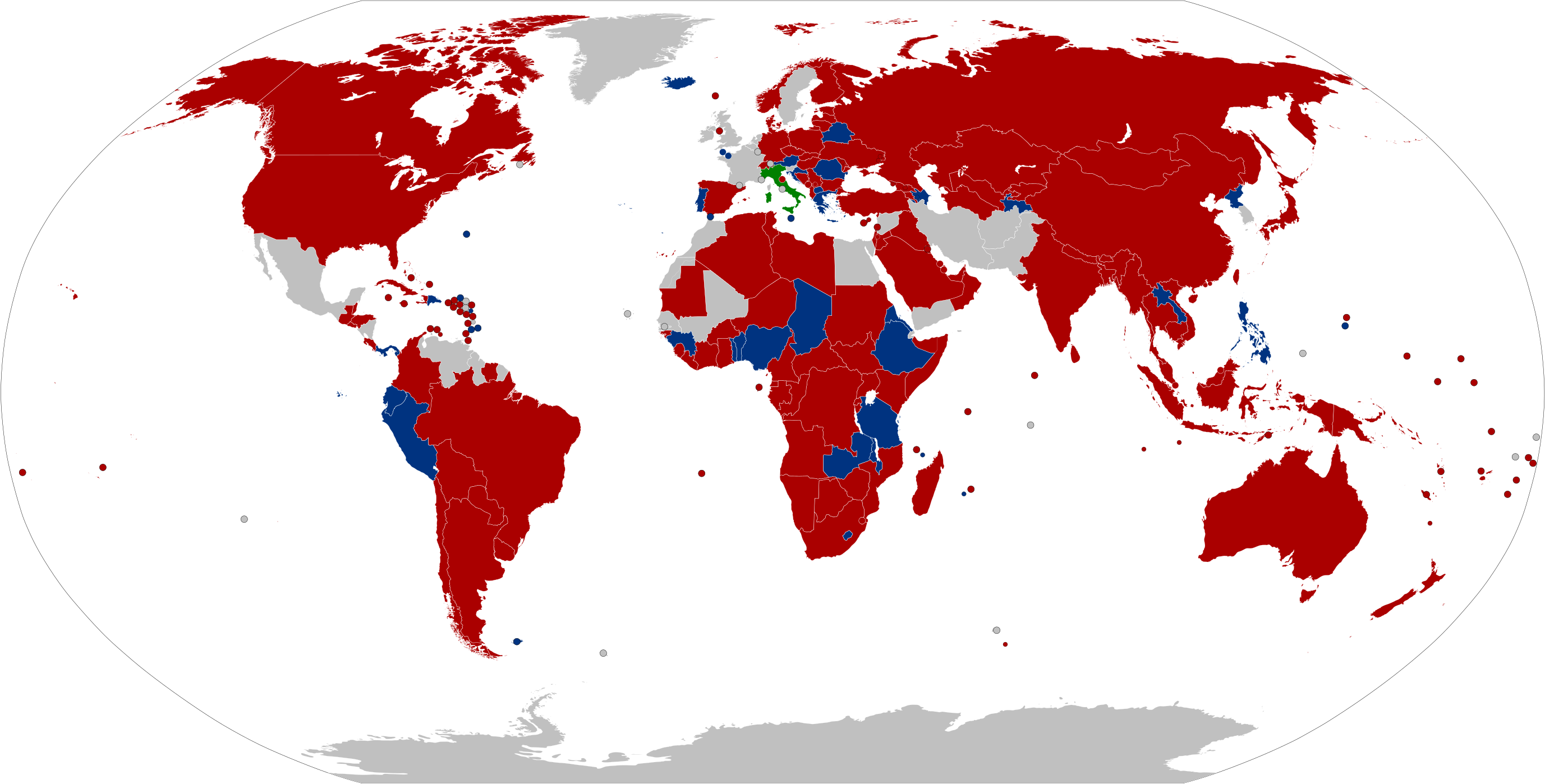 Restrictions towards Italians after COVID-19 outbreak[1] Italy Entrance refused to people from Italy Imposed quarantine on people arriving from Italy